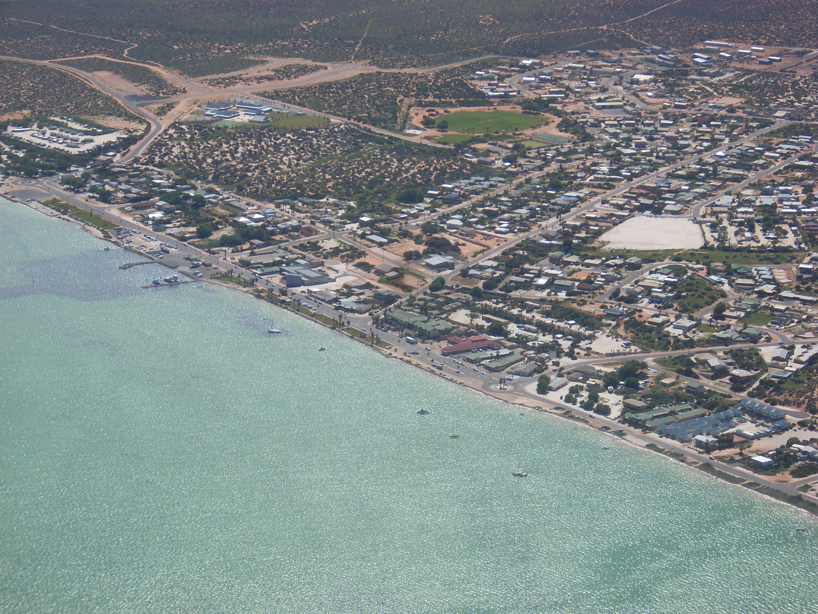 Denham, Shark Bay Region, Western Australia - from south air shot, in 2009